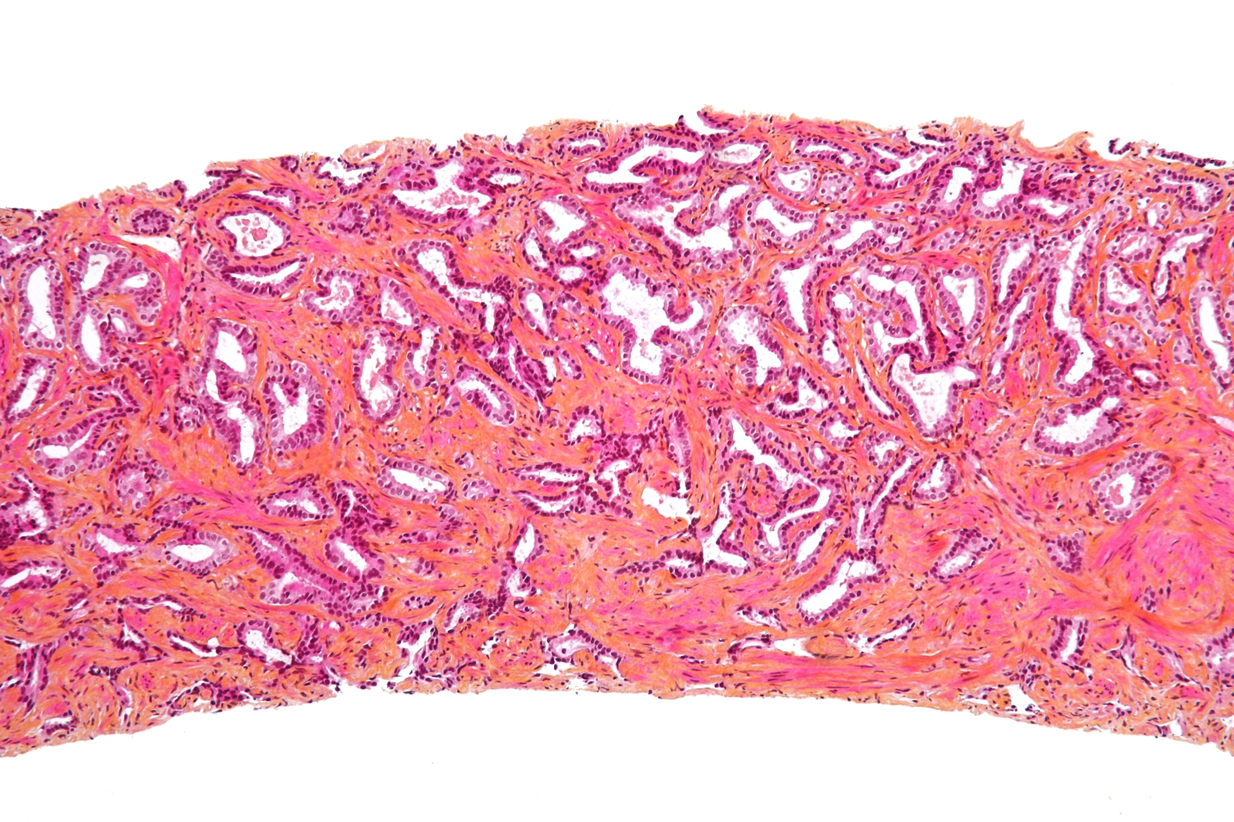 Micrograph of prostate adenocarcinoma. Needle core biopsy. HPS stain. See also Image:Perineural invasion prostate high mag.jpg - same case, view demonstrating perineural invasion. Image:Prostate adenocarcinoma 2 high mag hps.jpg - same case, different core showing benign (normal) prostatic glands and malignant ones - high magnification. Image:Prostate adenocarcinoma 2 intermed mag hps.jpg - same case, different core showing benign (normal) prostatic glands and malignant ones - intermediate magnification.